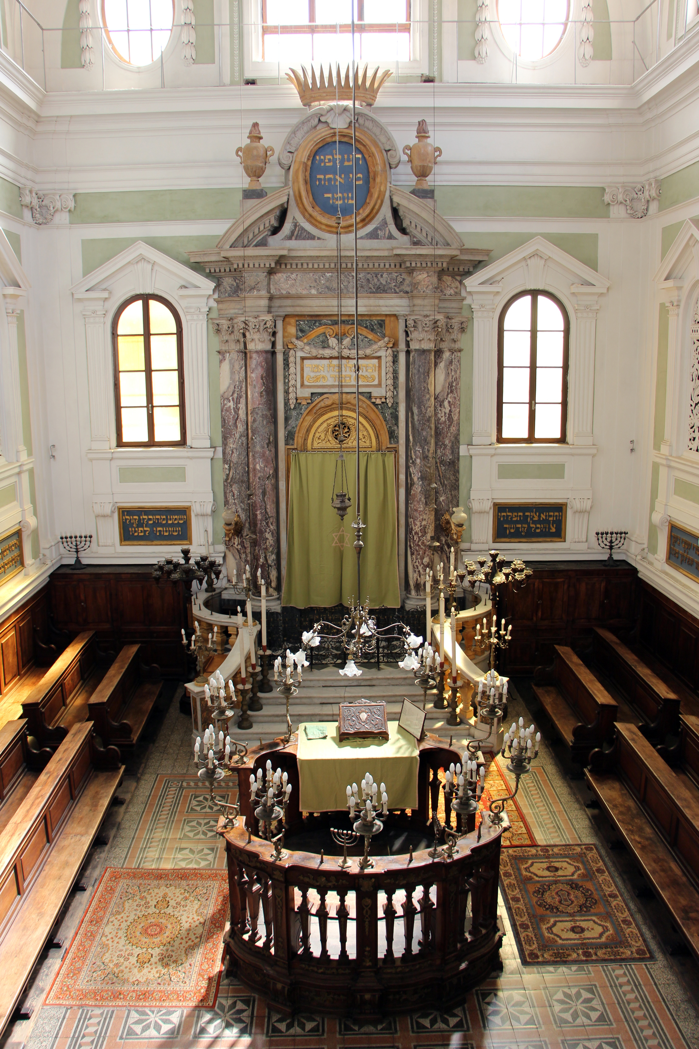 Synagogue of Siena